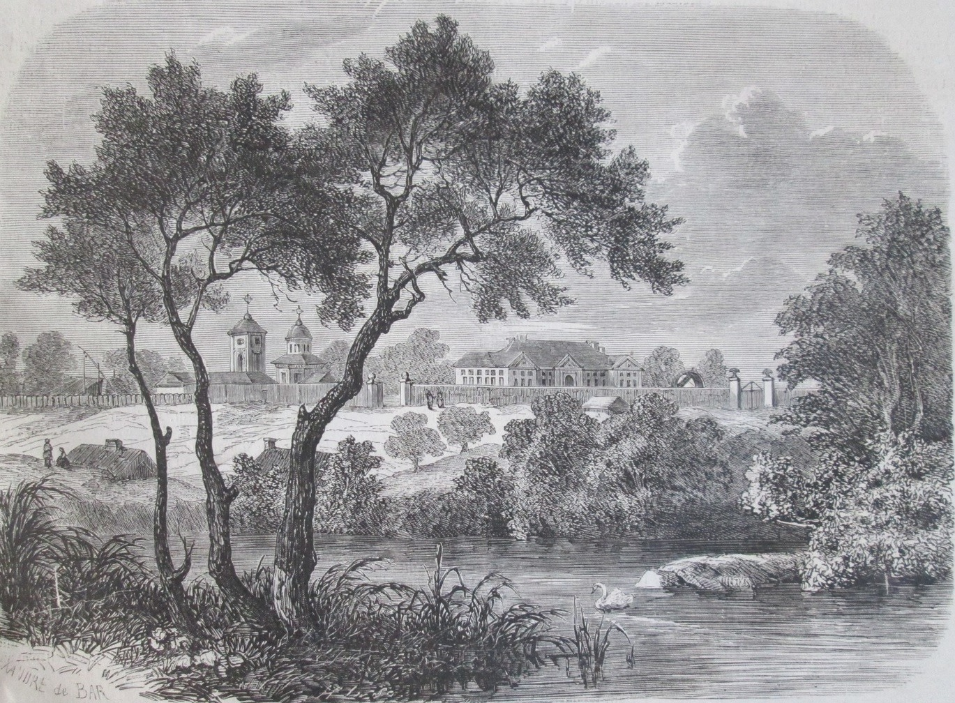 Palatul Ghica, Colentina, Bucharest (built in 1822) 01